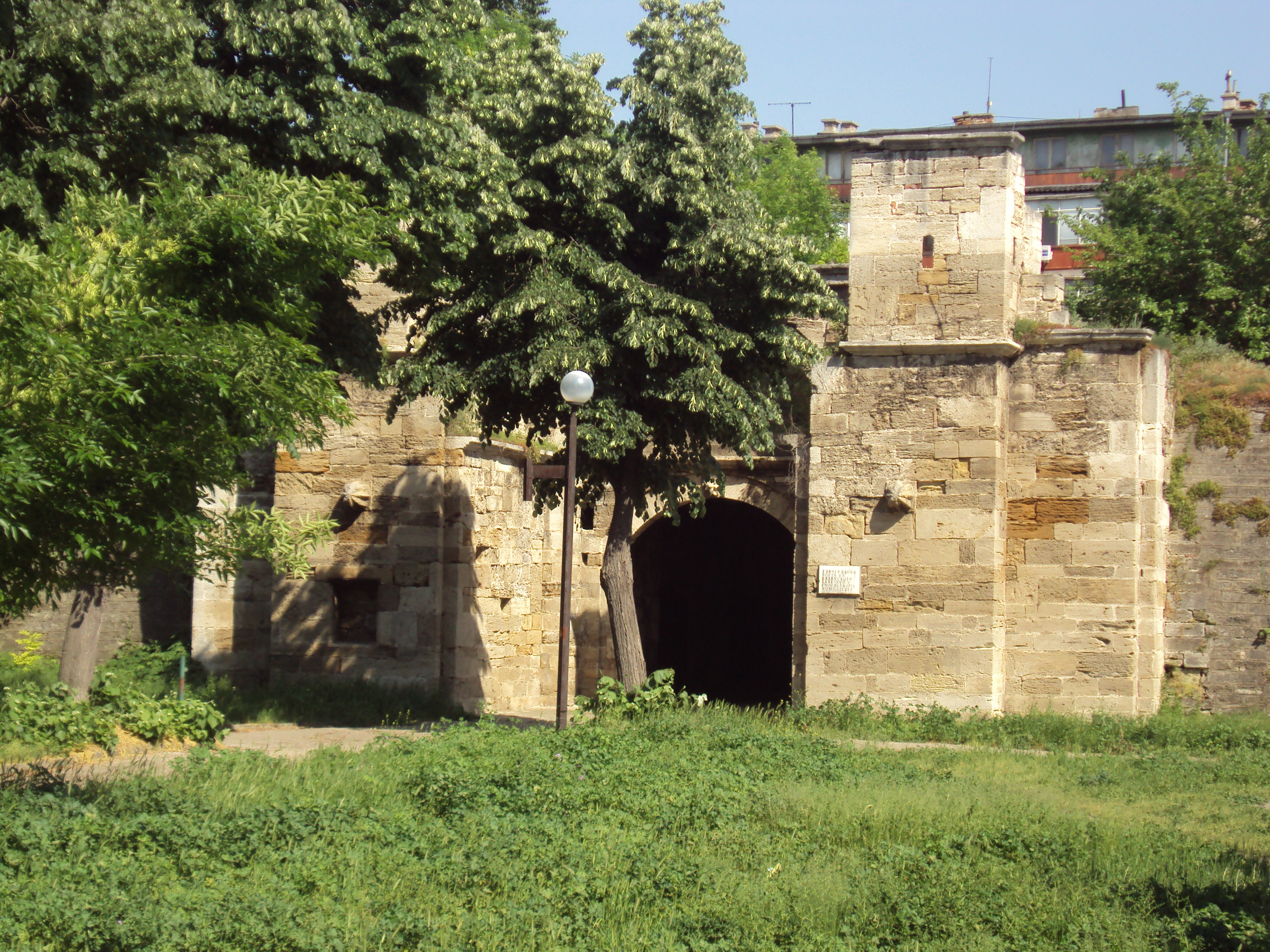 Vidin